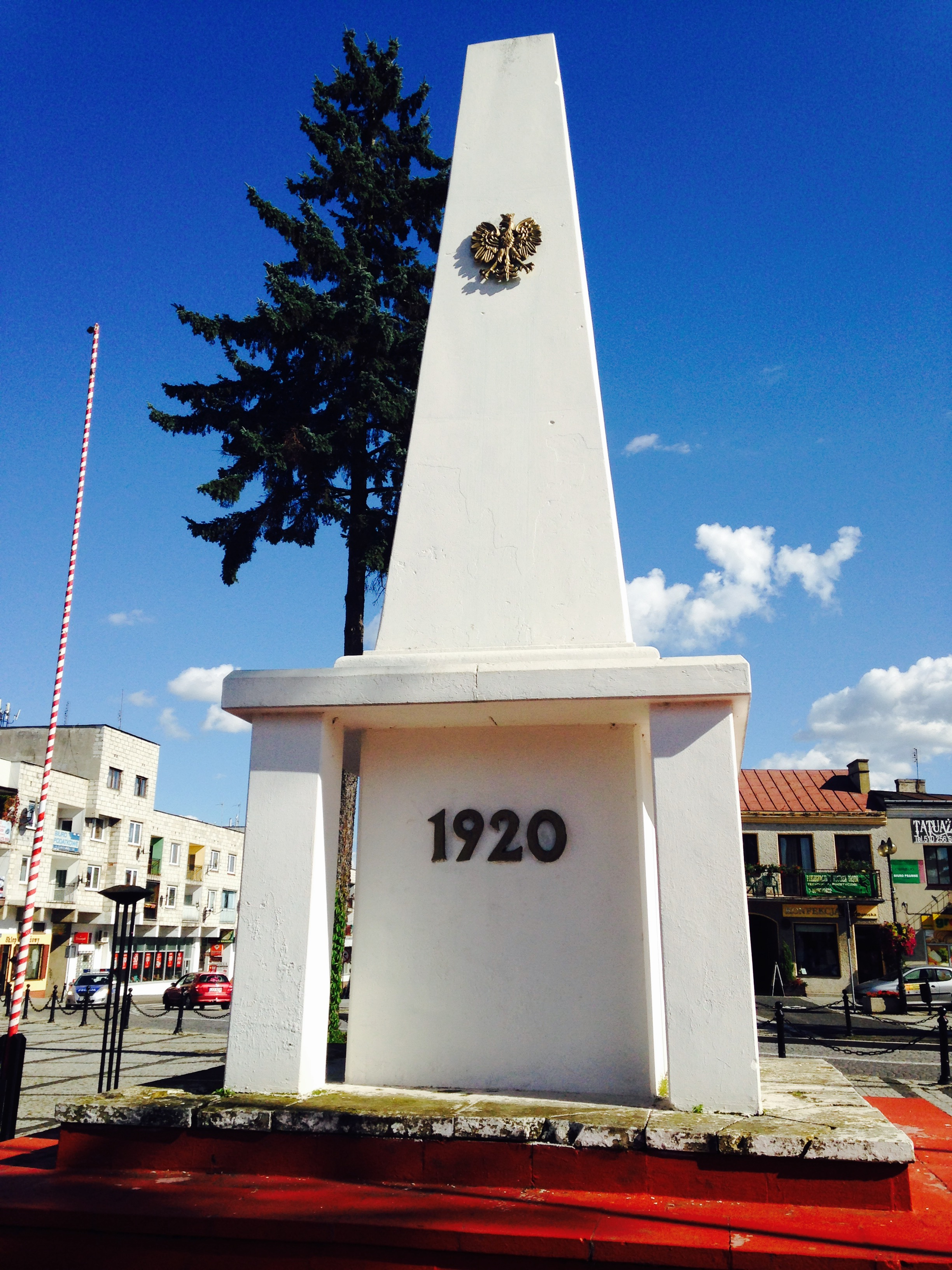 Polish-Soviet War Monument honoring Józef Piłsudski in Freedom Square, Kraśnik Lubelski